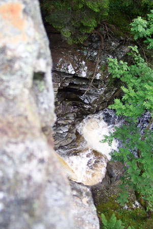 View down from upper bridge, Falls of Bruar, Scotland